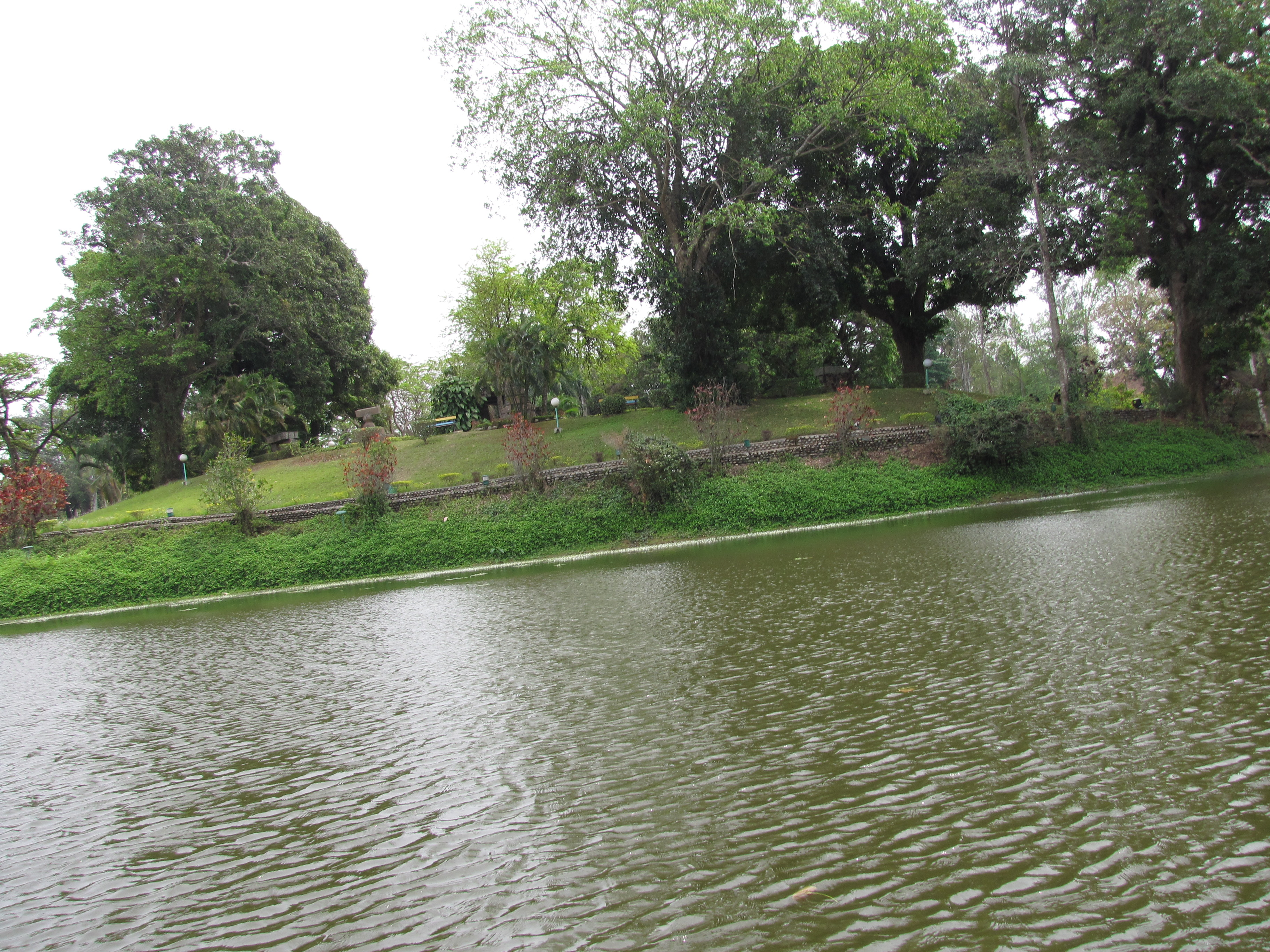 Lake at Cole Park, Tezpur